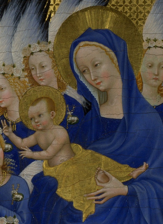 Edward of Angouleme and Joan of Kent, depicted on the Wilton diptych.